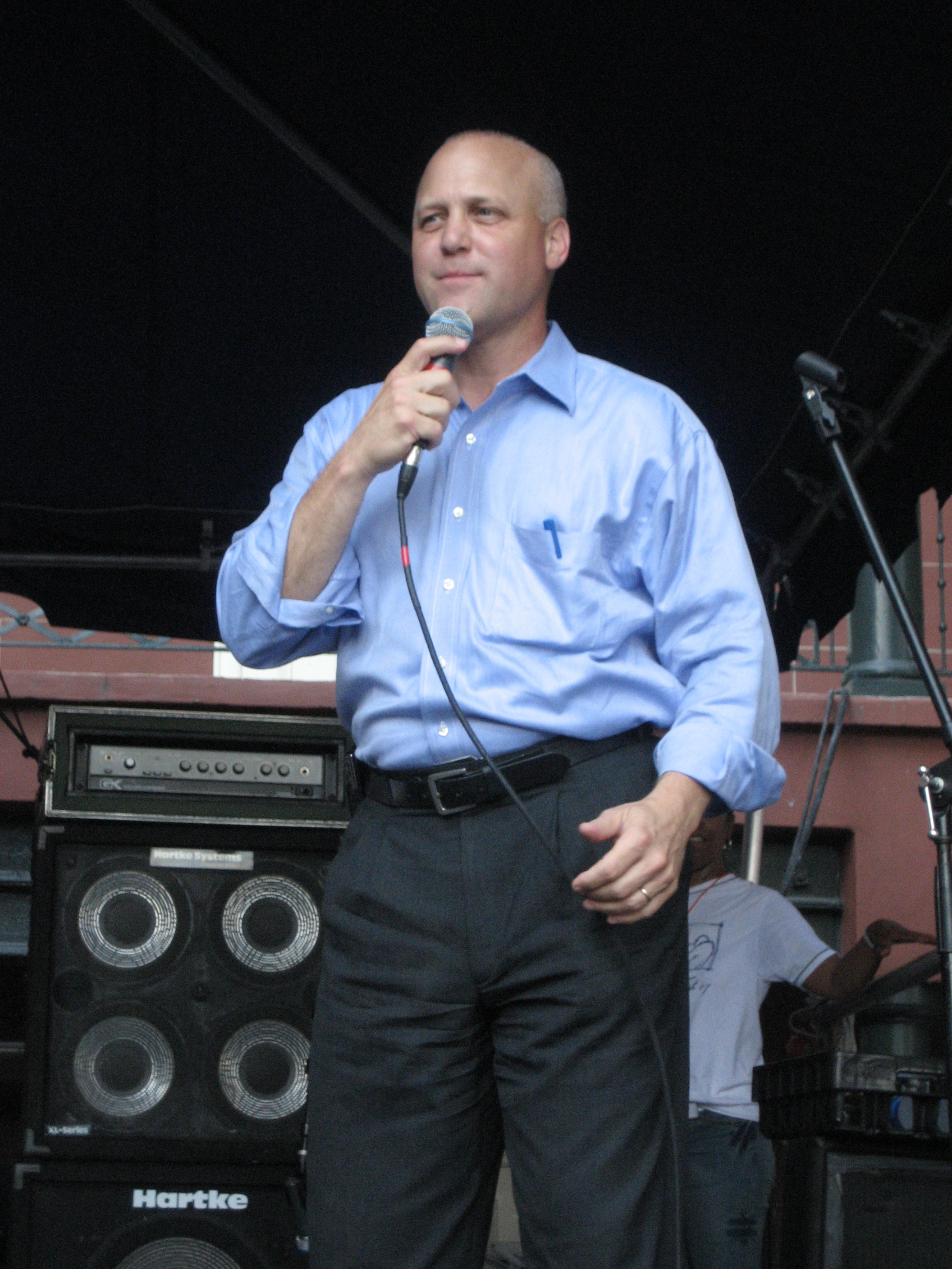 Mitch Landrieu, Lt. Governor of Louisiana, announces Dr. Michael White band at Satchmo Summer Fest, New Orleans